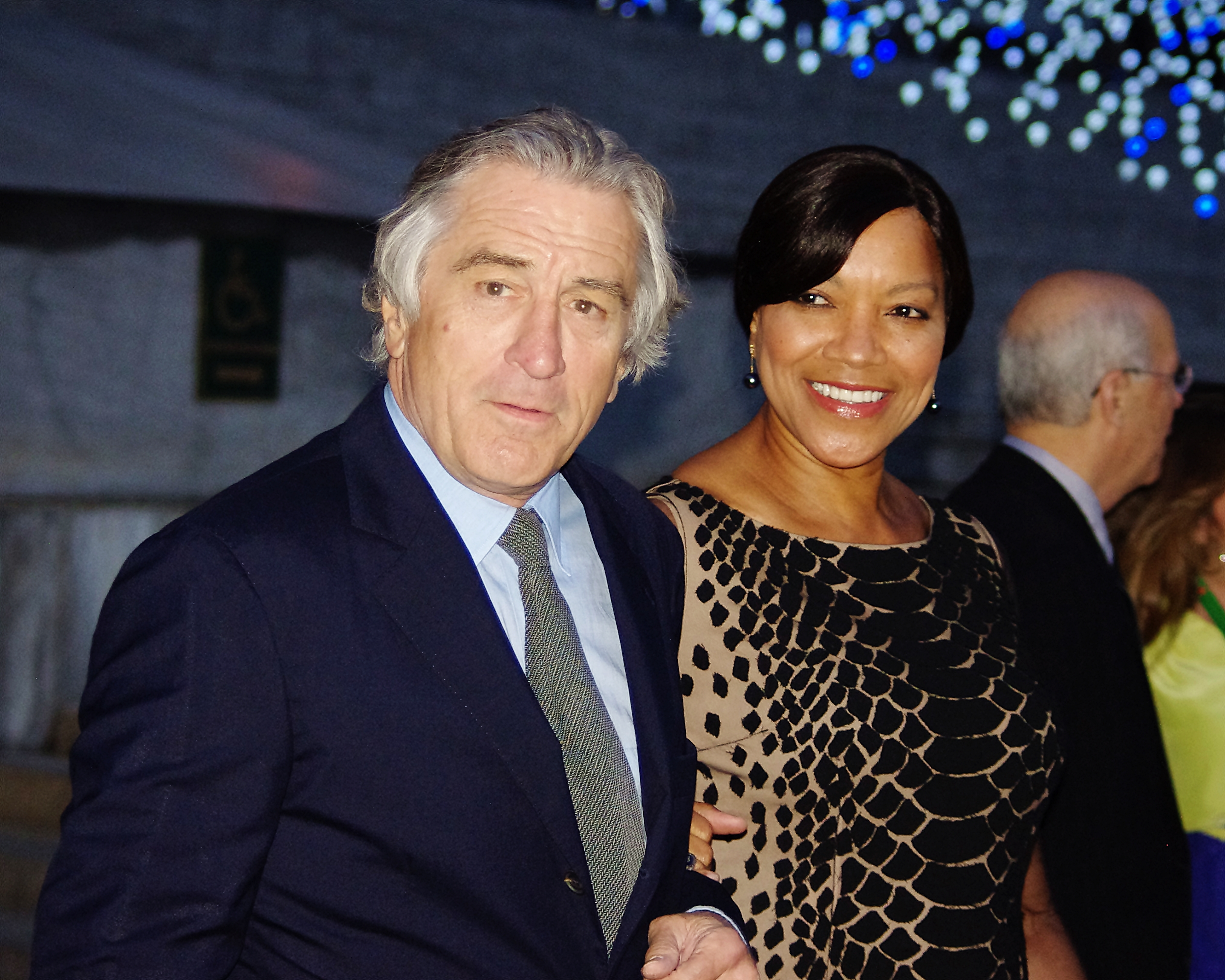 Robert De Niro and Grace Hightower at the Vanity Fair party for the 2012 Tribeca Film Festival.